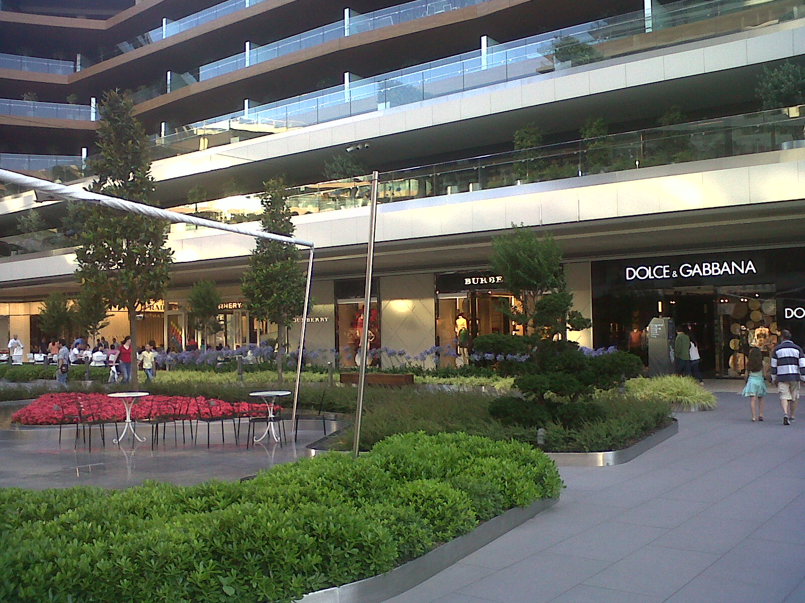 Zorlu Center İstanbul